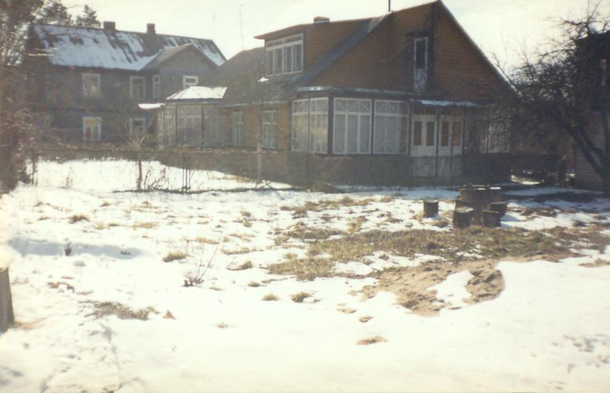 HOUSE OF L. JAKAVICIUS